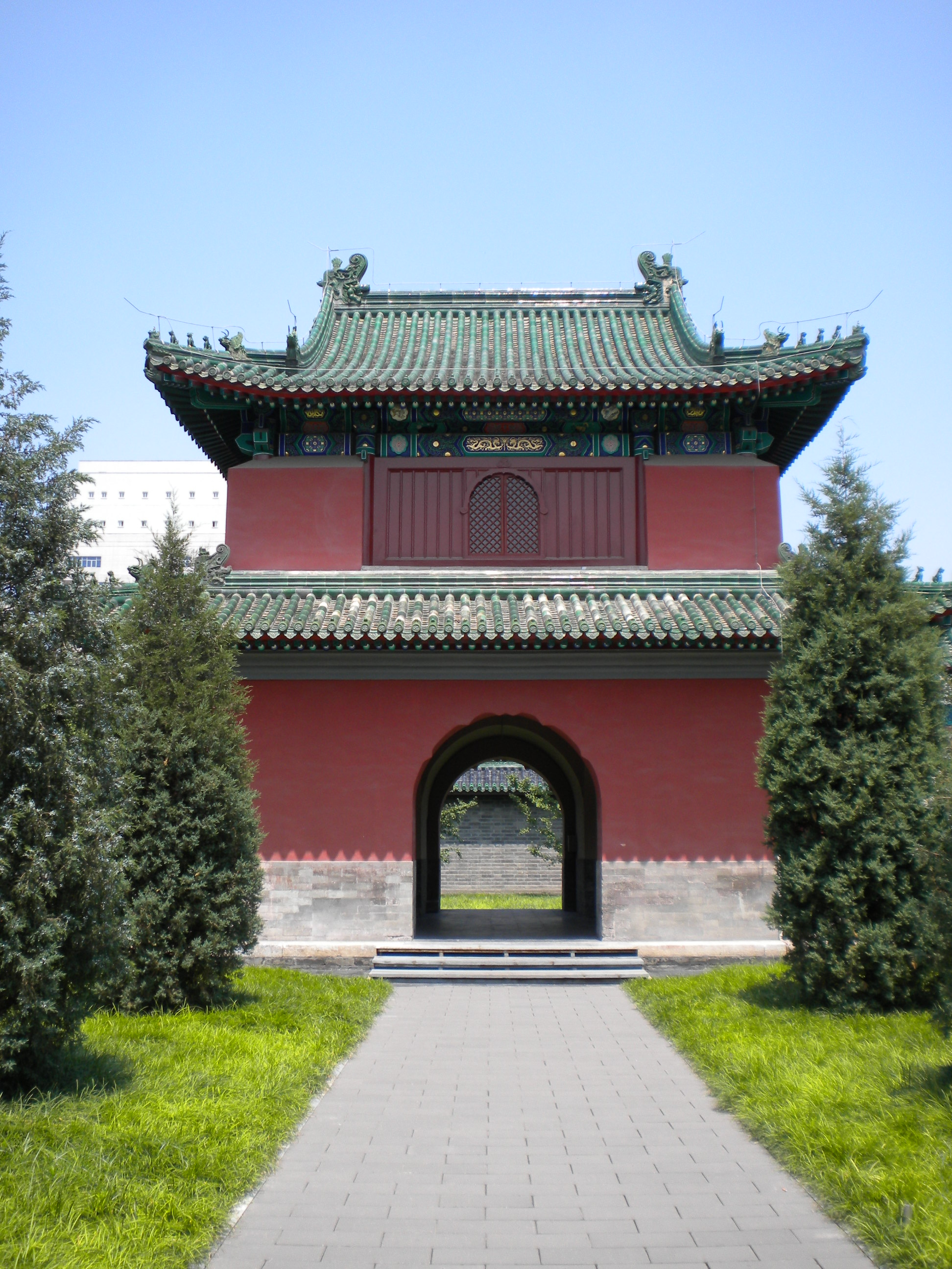 北京月坛钟楼/Bell Tower (Temple of the Moon)